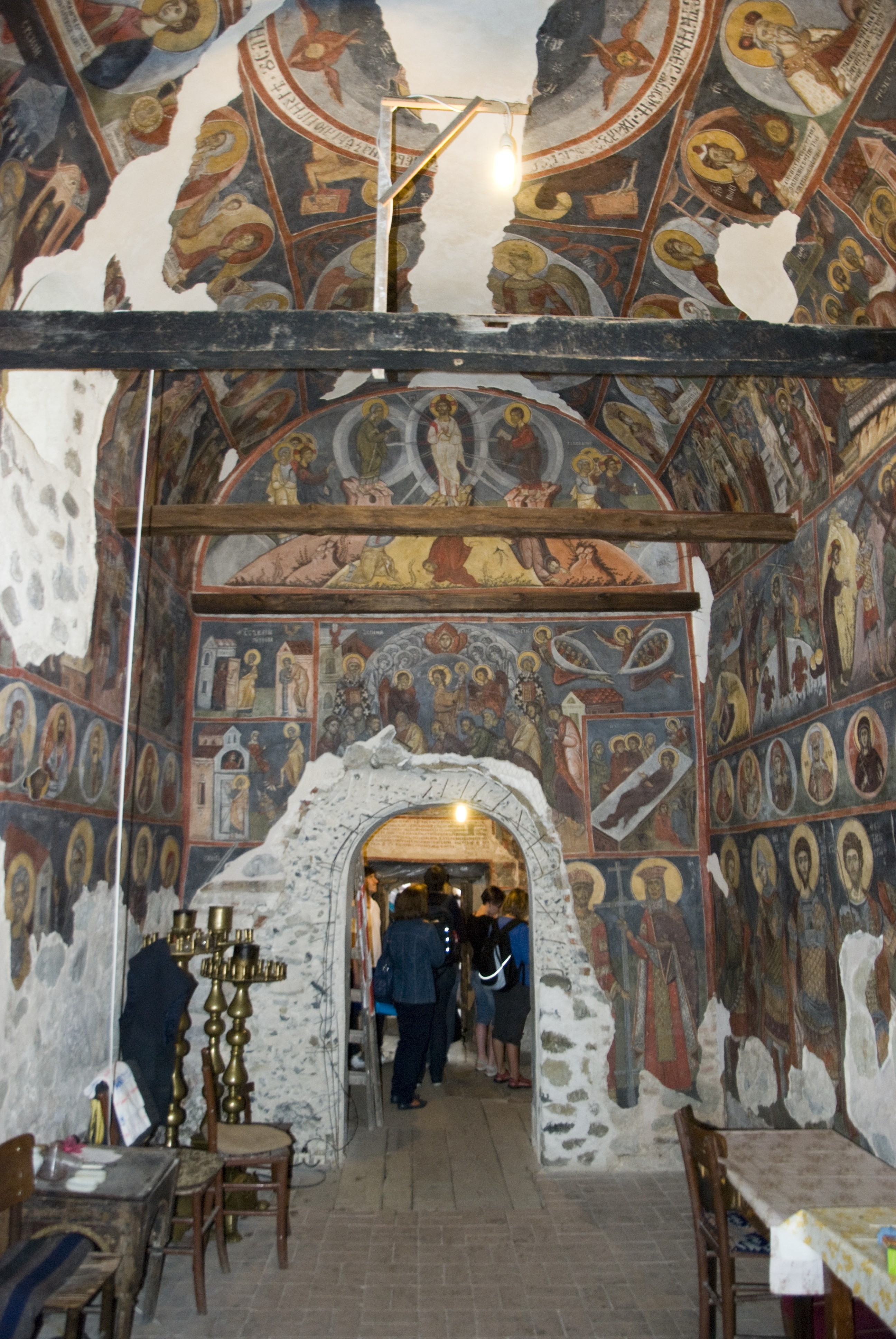 Inside the south-east part of the church of the Dragalevtsi Monastery near Sofia, Bulgaria. Looking west